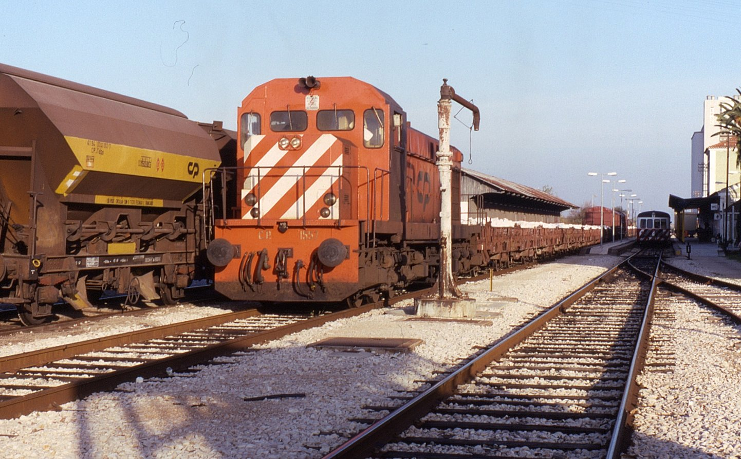 Taken on 12 November 1993, Montreal Locomotive Works (MLW) built loco no. 1557 is seen at Elvas on a freight working.